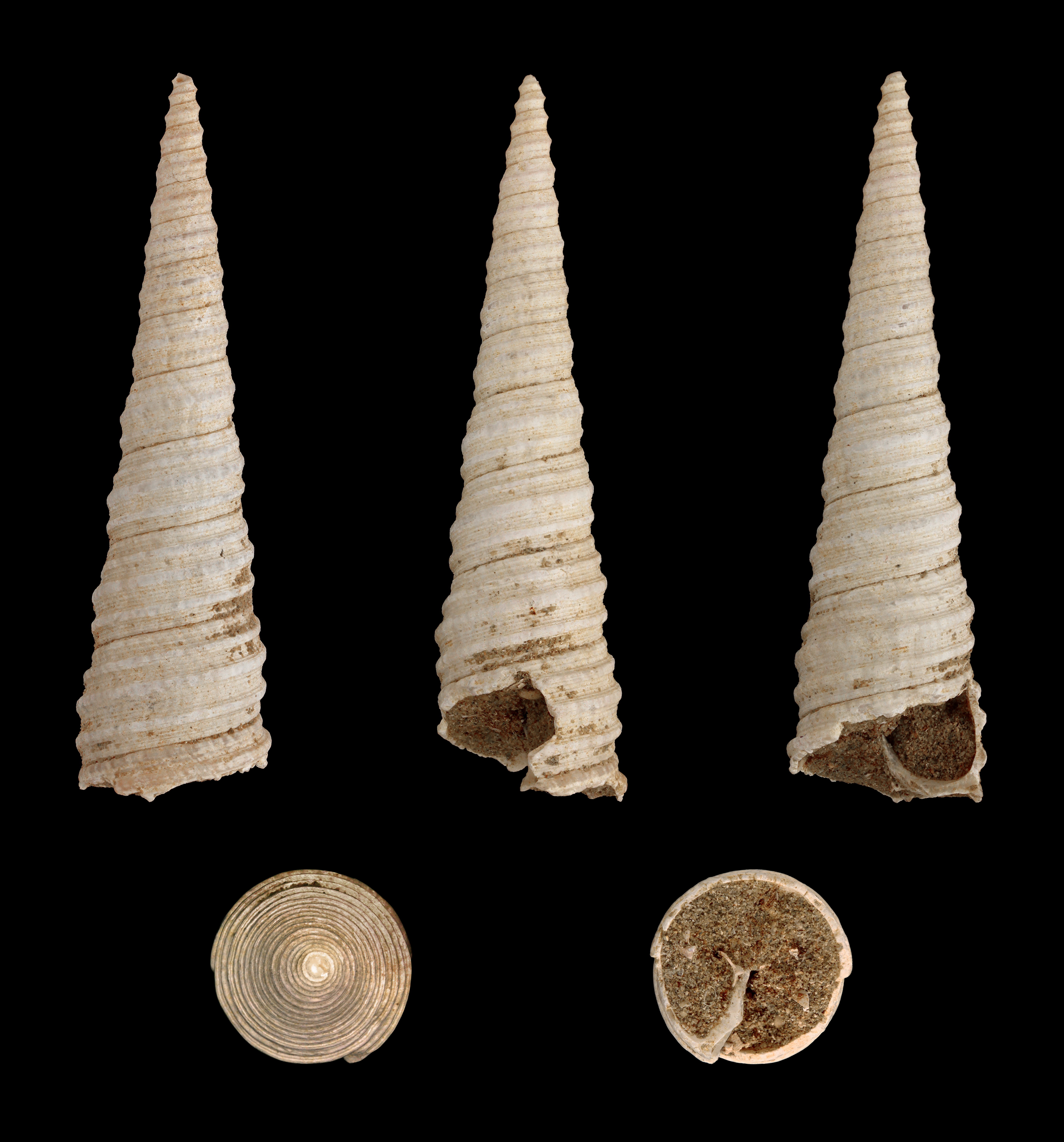 Length 4.6 cm; Pliocene, Neogene, Tertiary; San Gimirgnone, Italy; Shell of own collection, therefore not geocoded. Dorsal, lateral (right side), ventral, back, and front view.